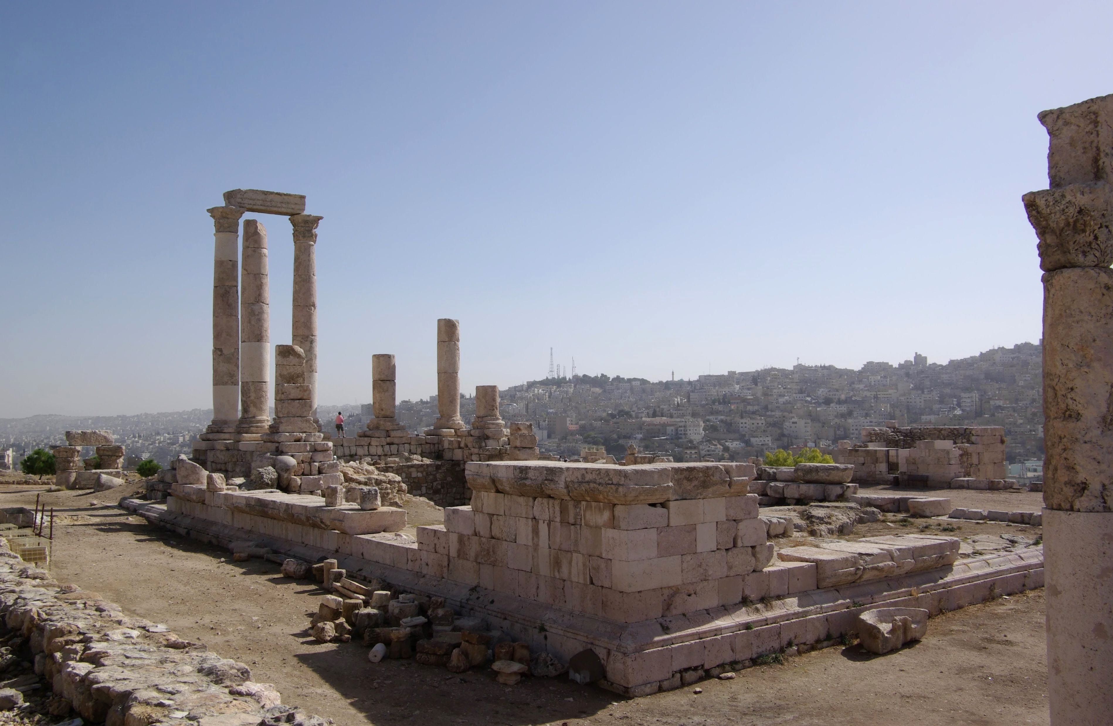 Jordan, Amman, Ruins of the temple of Hercules